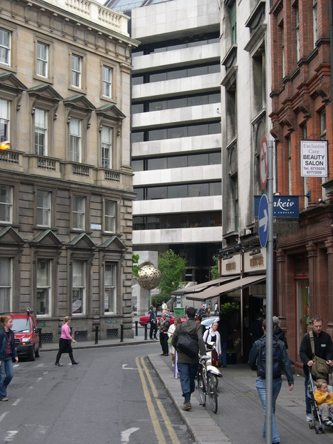 Trinity Street, Dublin Looking towards Dame Street and the Central Bank.